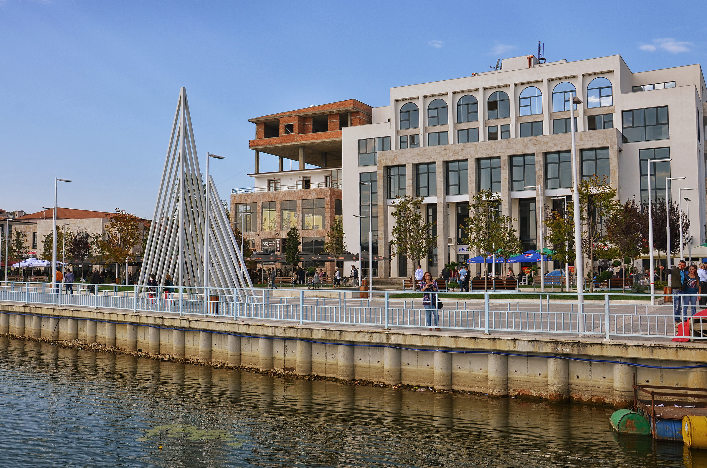 The lakeside promenade of Belsh, Albania